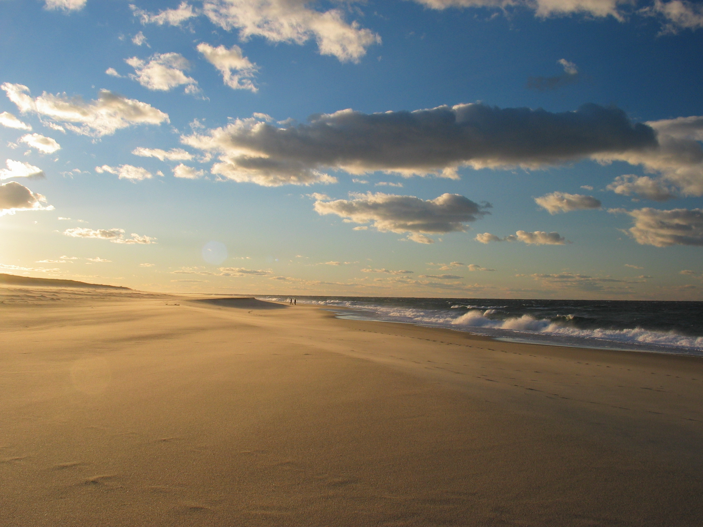 Cape Cod beach at sunset, Race Point Beach